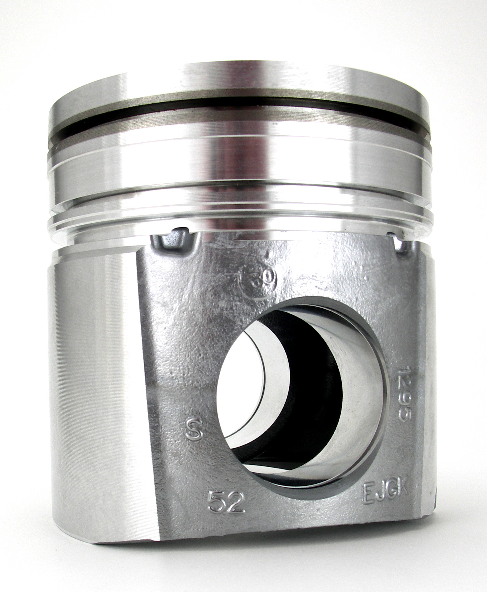 Cummins Diesel engine piston. permanent mold casting (AE) / gravity die casting (BE), machined.